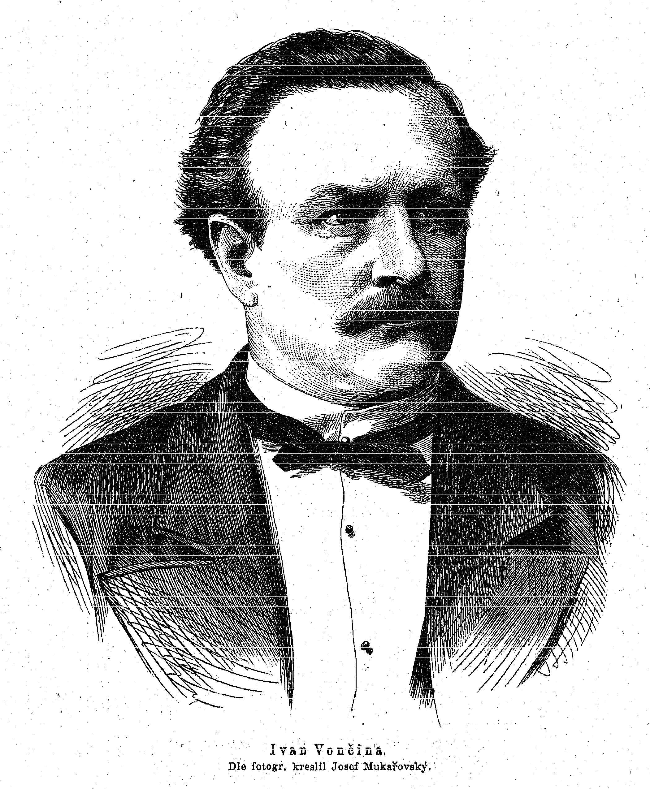 Portrait of Ivan Vončina (1827 - 1885), Croatian politician